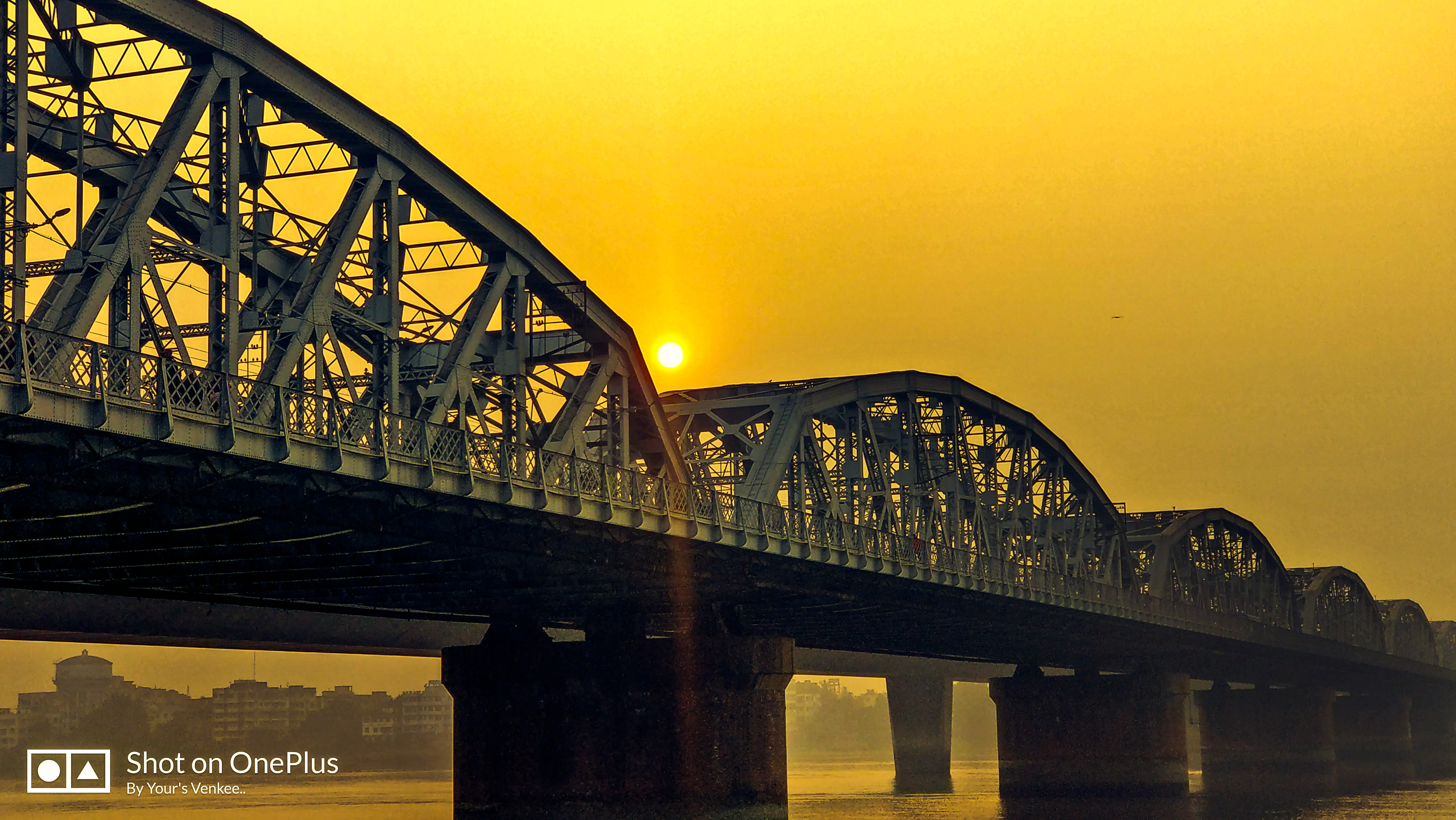 Sunset captured near Kali Ghat Temple, Kolkata. Vivekananda Setu is a bridge over the Hooghly River, it connects Kolkata city And Dakshineswar.